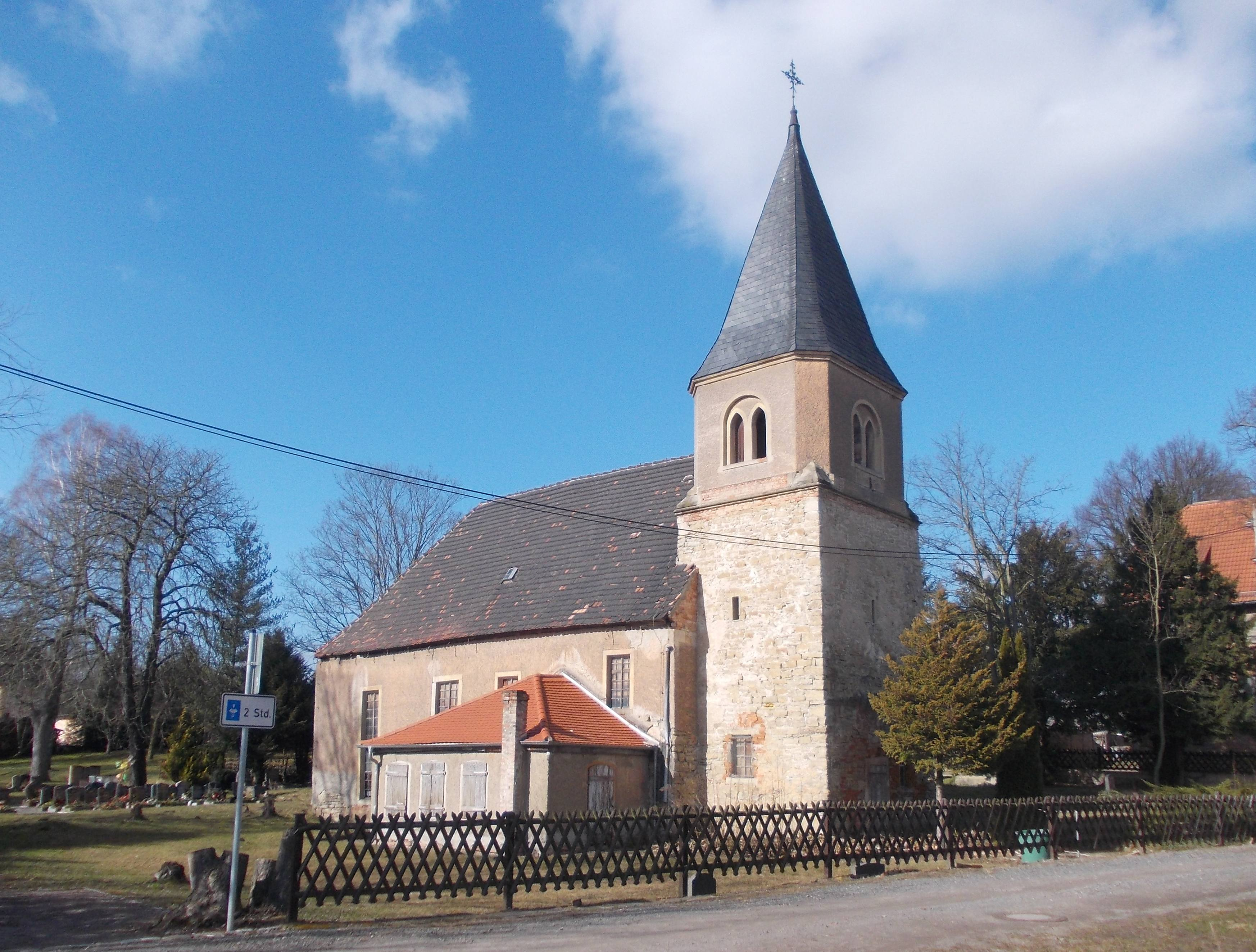 Wildschütz church (Teuchern, district: Burgenlandkreis, Saxony-Anhalt)